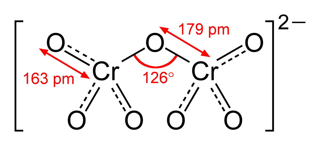 Structure of the dichromate ion, Cr2O72−